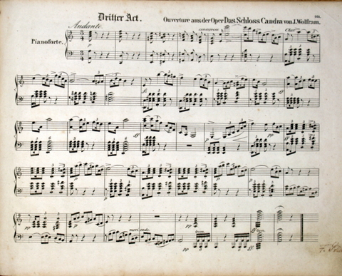 Joseph Maria Wolfram: Ouverture from the Oper Das Schloss Candra